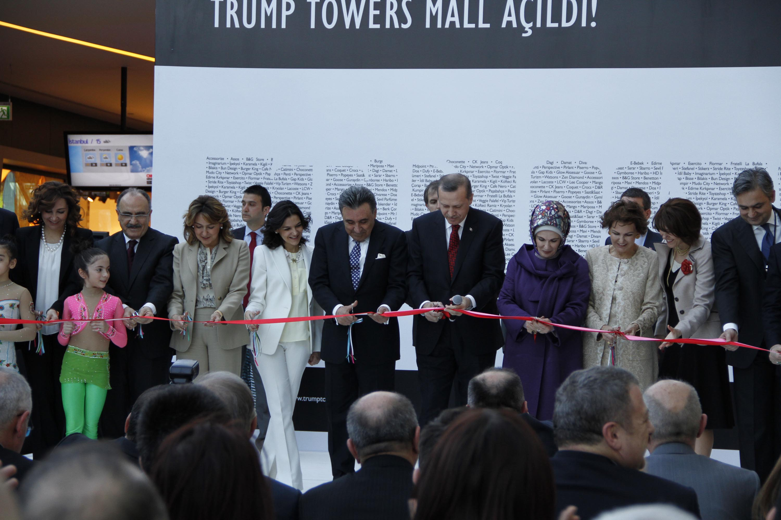 Trump AVM opening ceremony